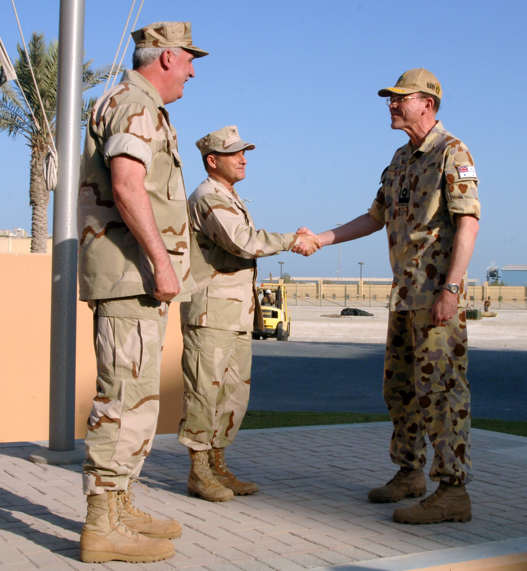 NAVAL SUPPORT ACTIVITY, Bahrain (Sept. 26, 2007) - Capt. George Cox, Combined Maritime Forces Chief of Staff, congratulates Royal Australian Navy Commodore Allan du Toit, who relieved Rear Adm. Garry E. Hall as commander of Combined Task Force (CTF) 158 during a ceremony at Naval Support Activity Bahrain. CTF-158 conducts maritime operations in the Persian Gulf. U.S. Navy photo by Mass Communication Specialist 2nd Class Adam Herrada (RELEASED)